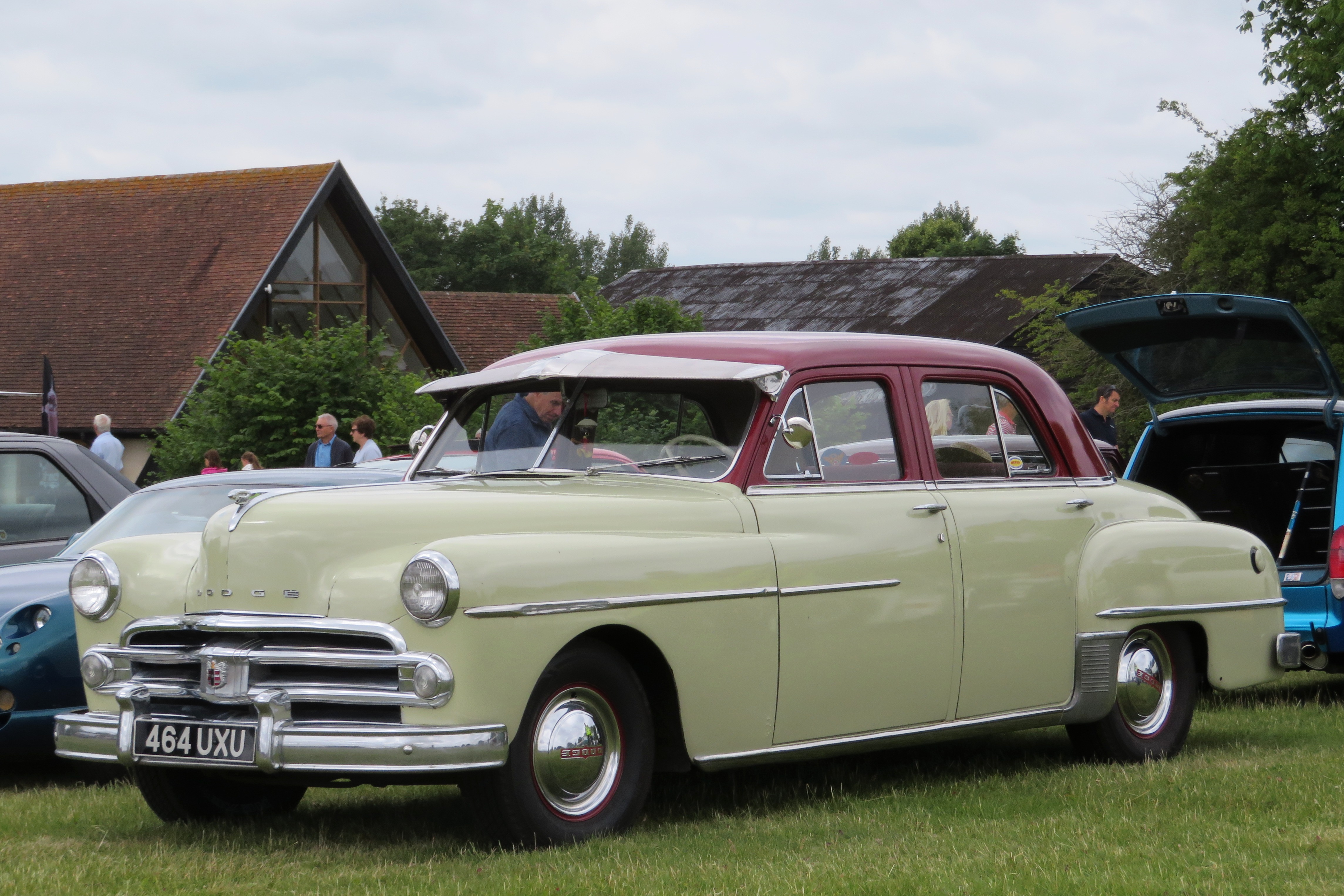 1950 Dodge Coronet sedan